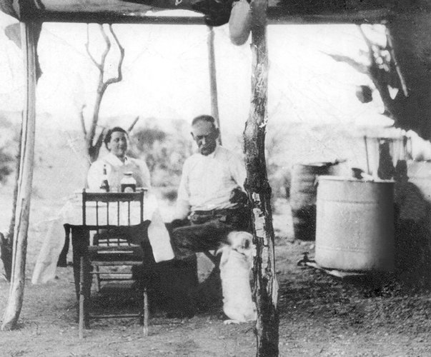 Wyatt and Josephine Earp in their mining camp near Vidal California. They owned a number of mining claims that they worked during the fall, winter, and spring of each year.